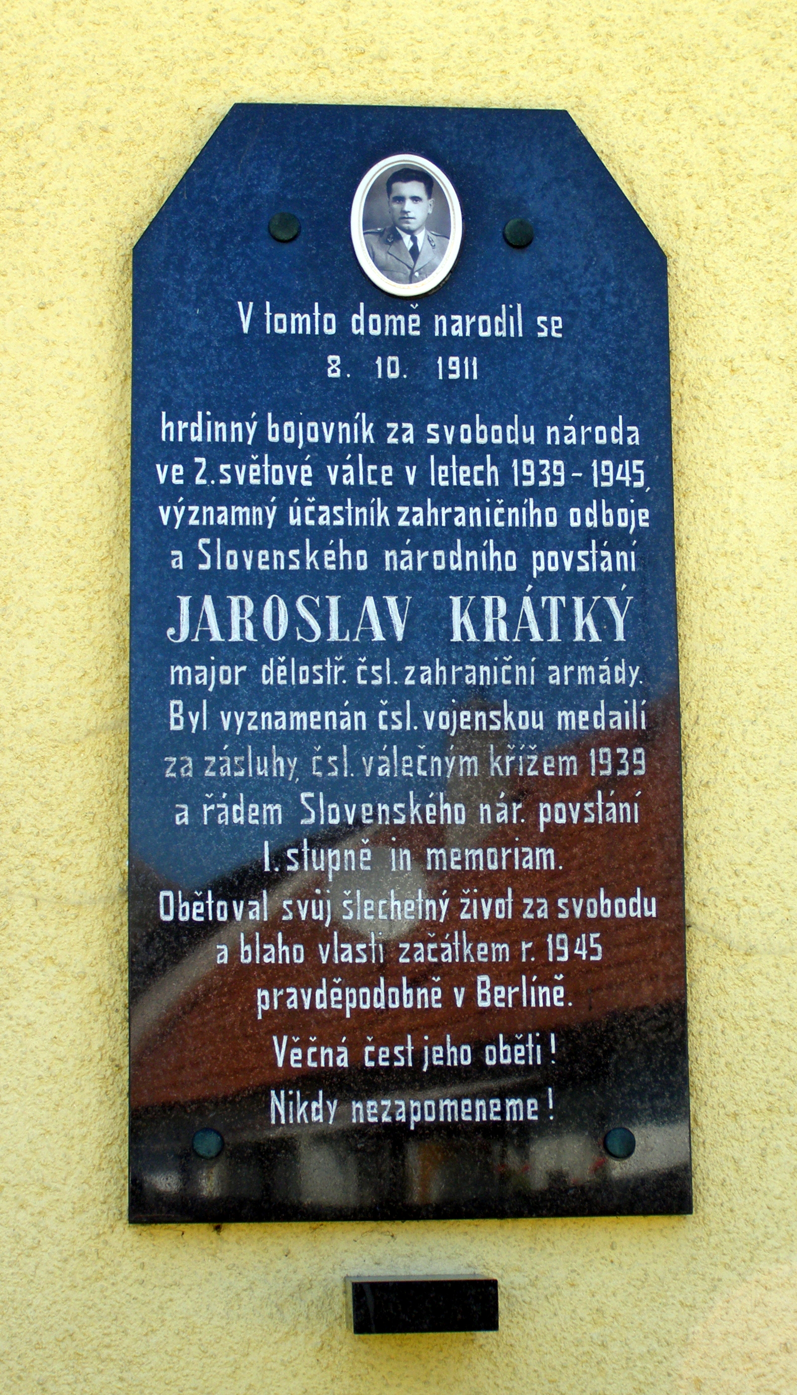 Střížov village, part of Vladislav. Major Jaroslav Krátký plaque